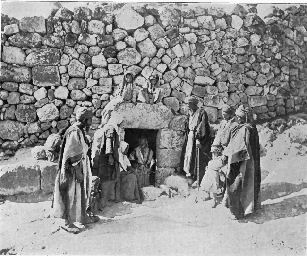 Lazarus tomb 1913